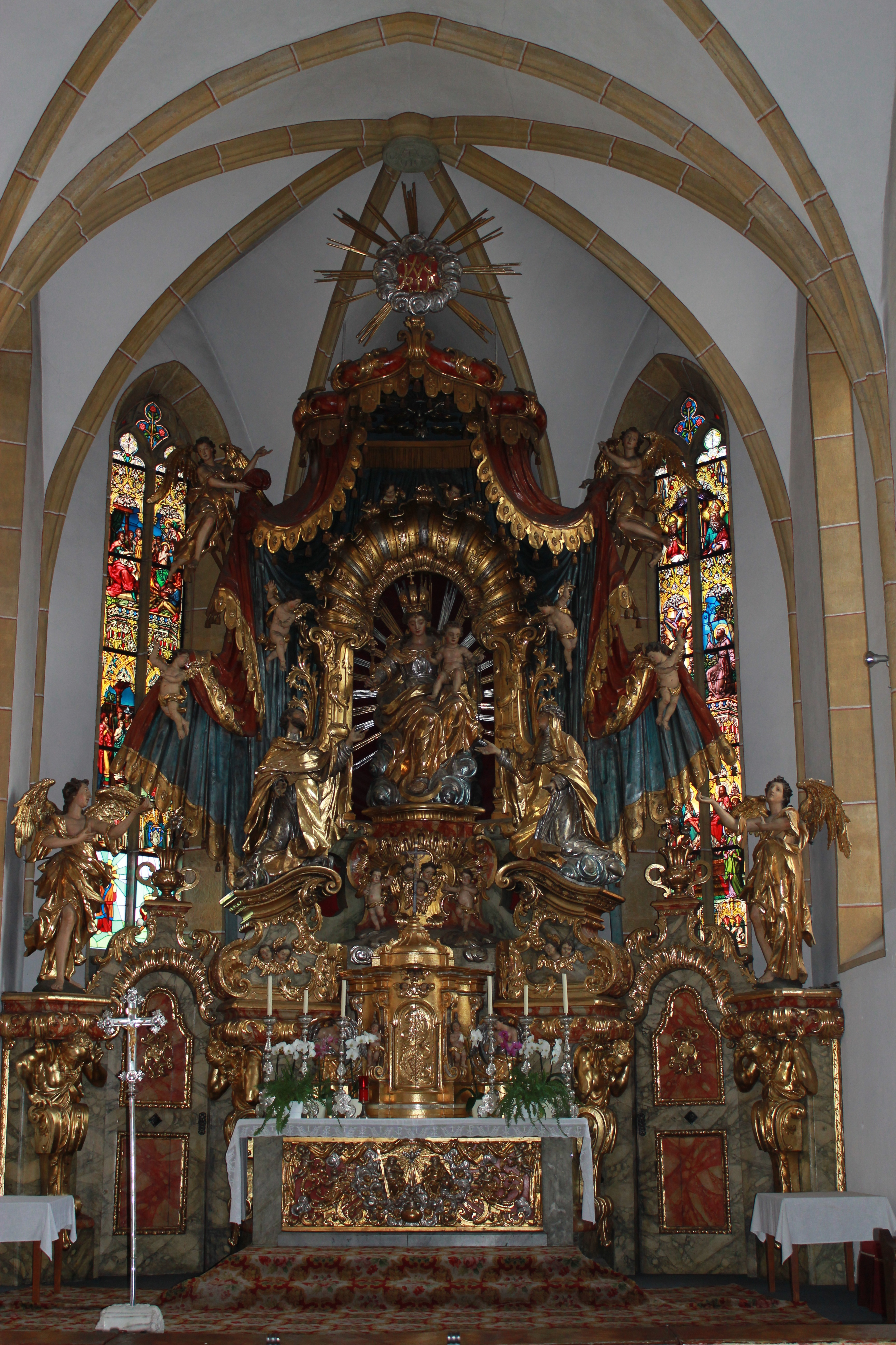 Parish church in Sankt Veit an der Glan - Main altar